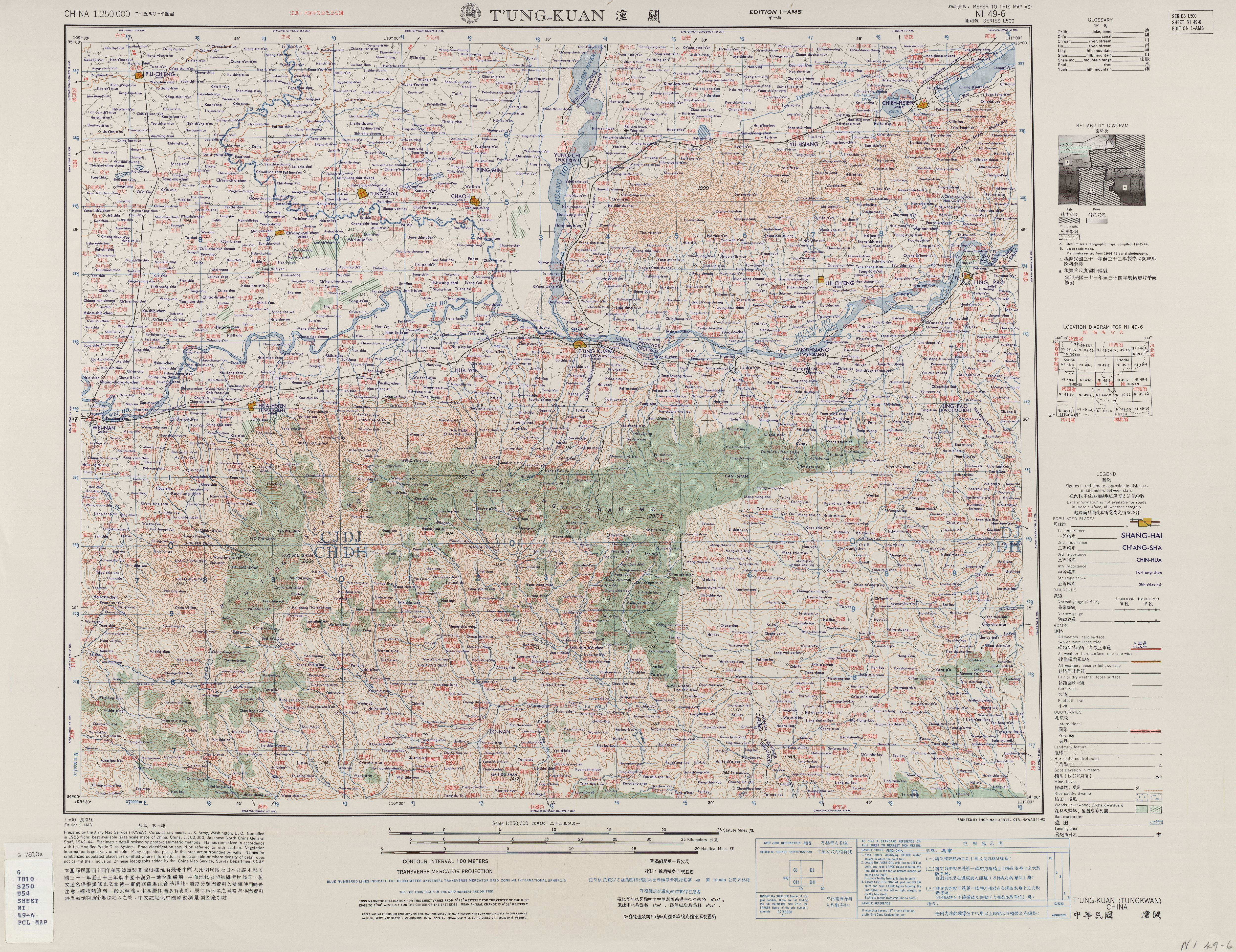 China AMS Topographic Maps